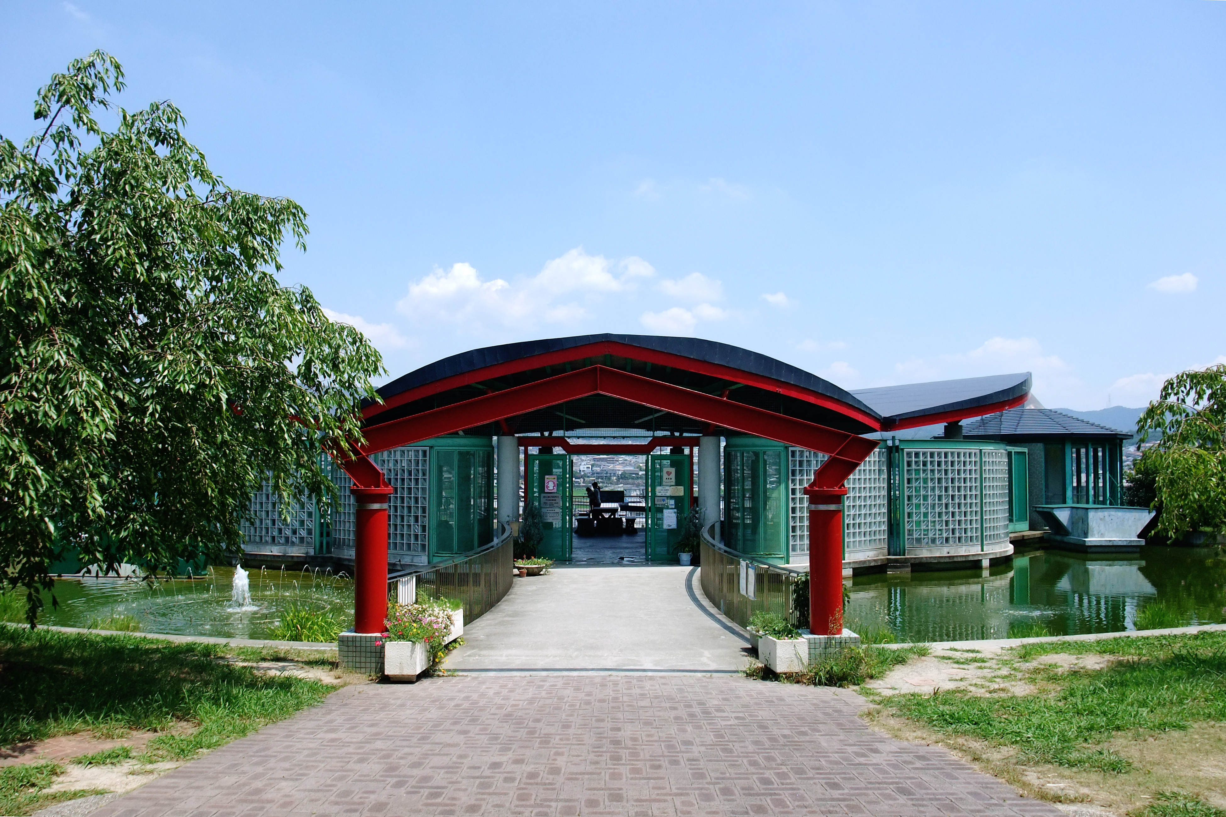 Aquapia Akutagawa in Nanpeidai 5-chome, Takatsuki, Osaka prefecture, Japan.